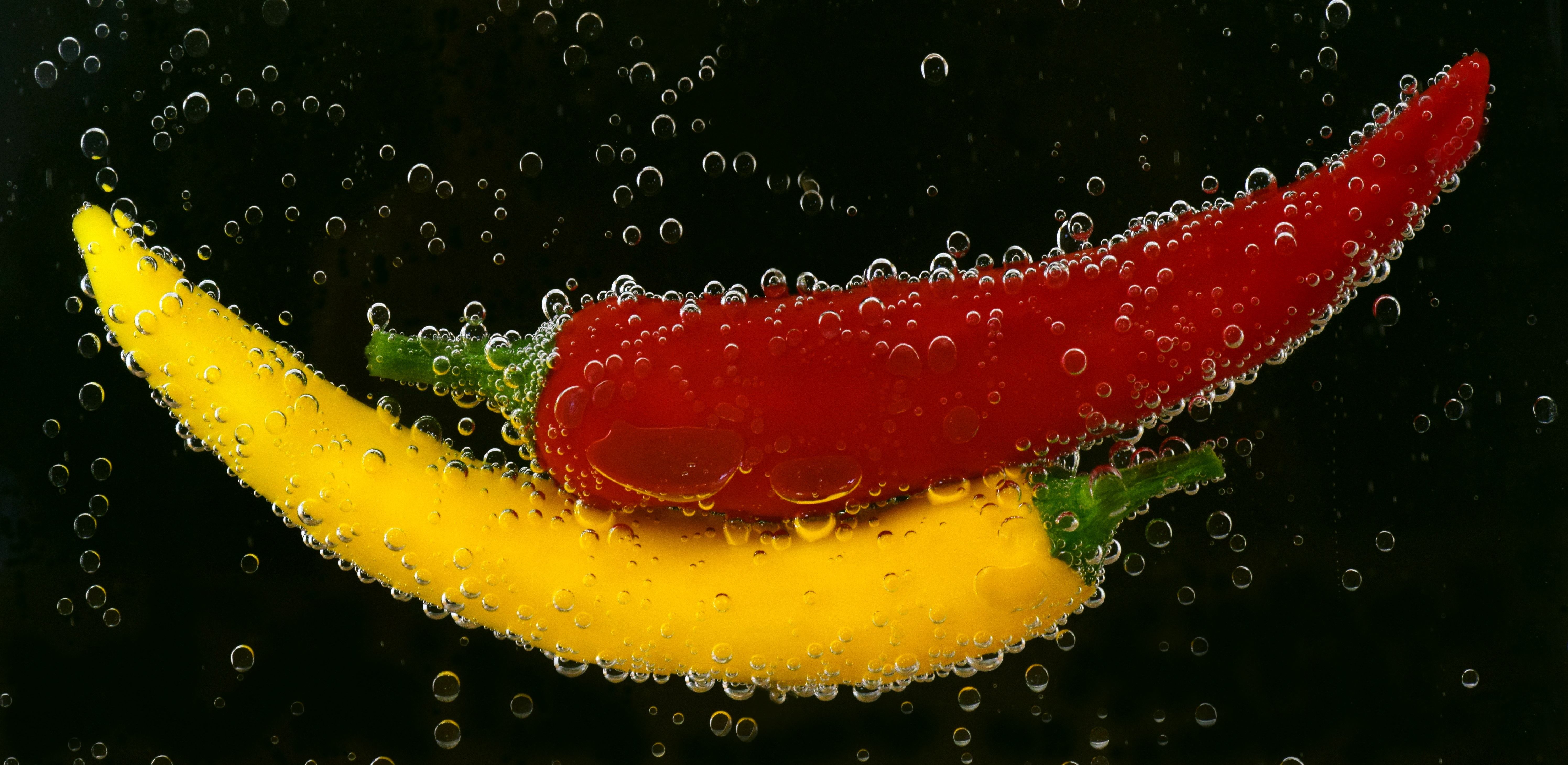 Red and yellow bell peppers in water